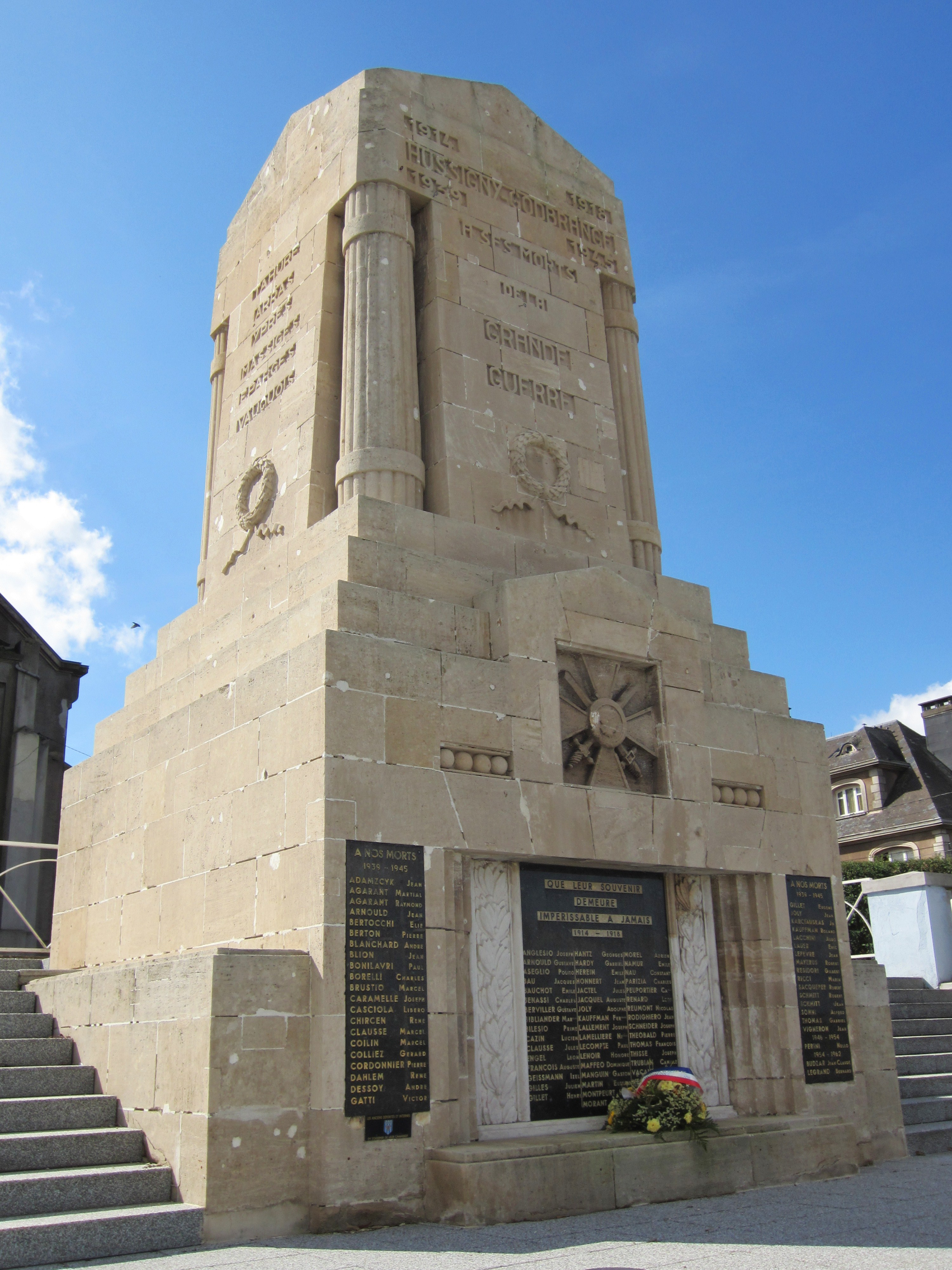 Description monument morts Hussigny Date24 September 2011Sourcemon appareil photoAuthorAimelaimePermission (Reusing this file) monument morts Hussigny